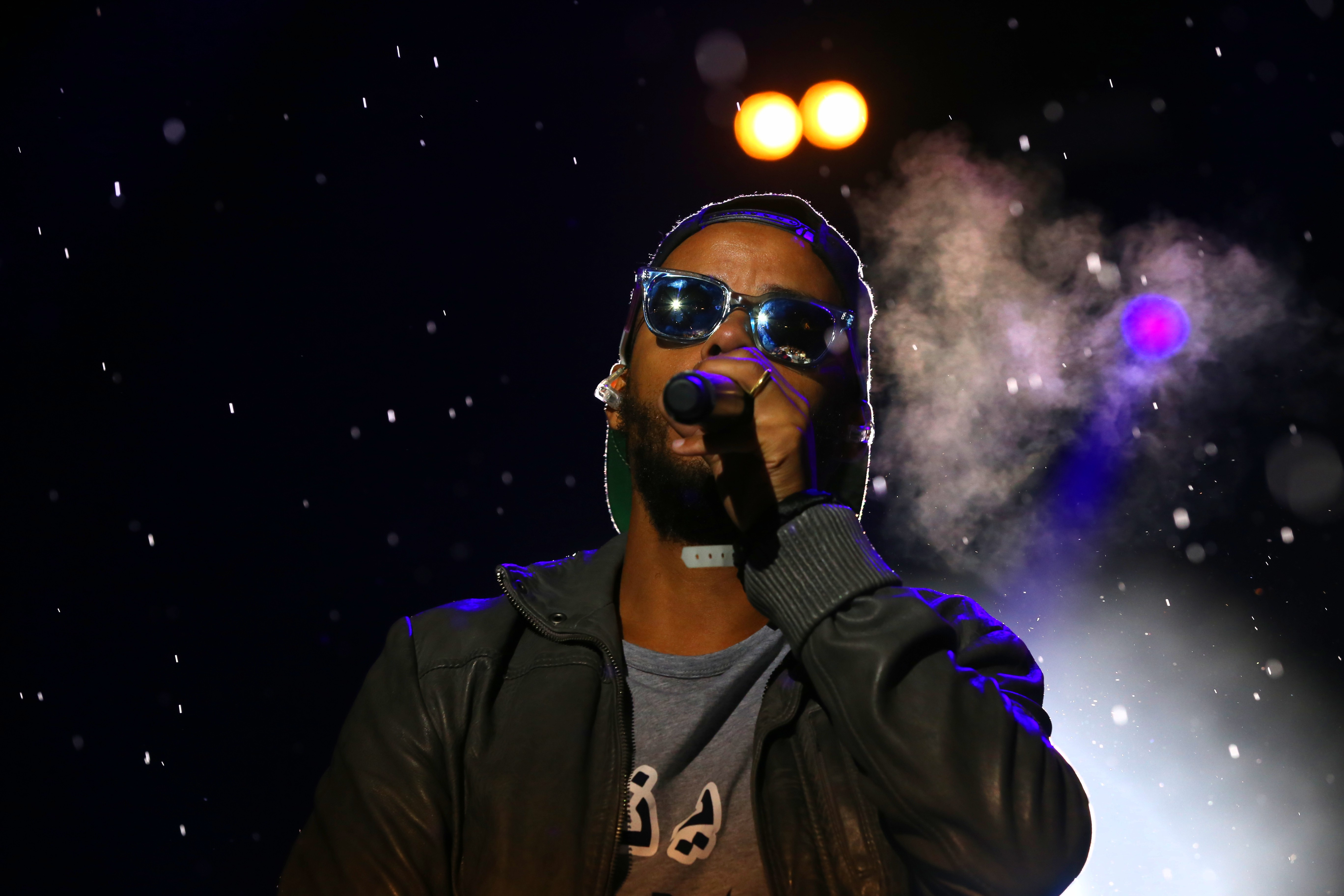 Beginner at Chiemsee Reggae Summer Festival 2013